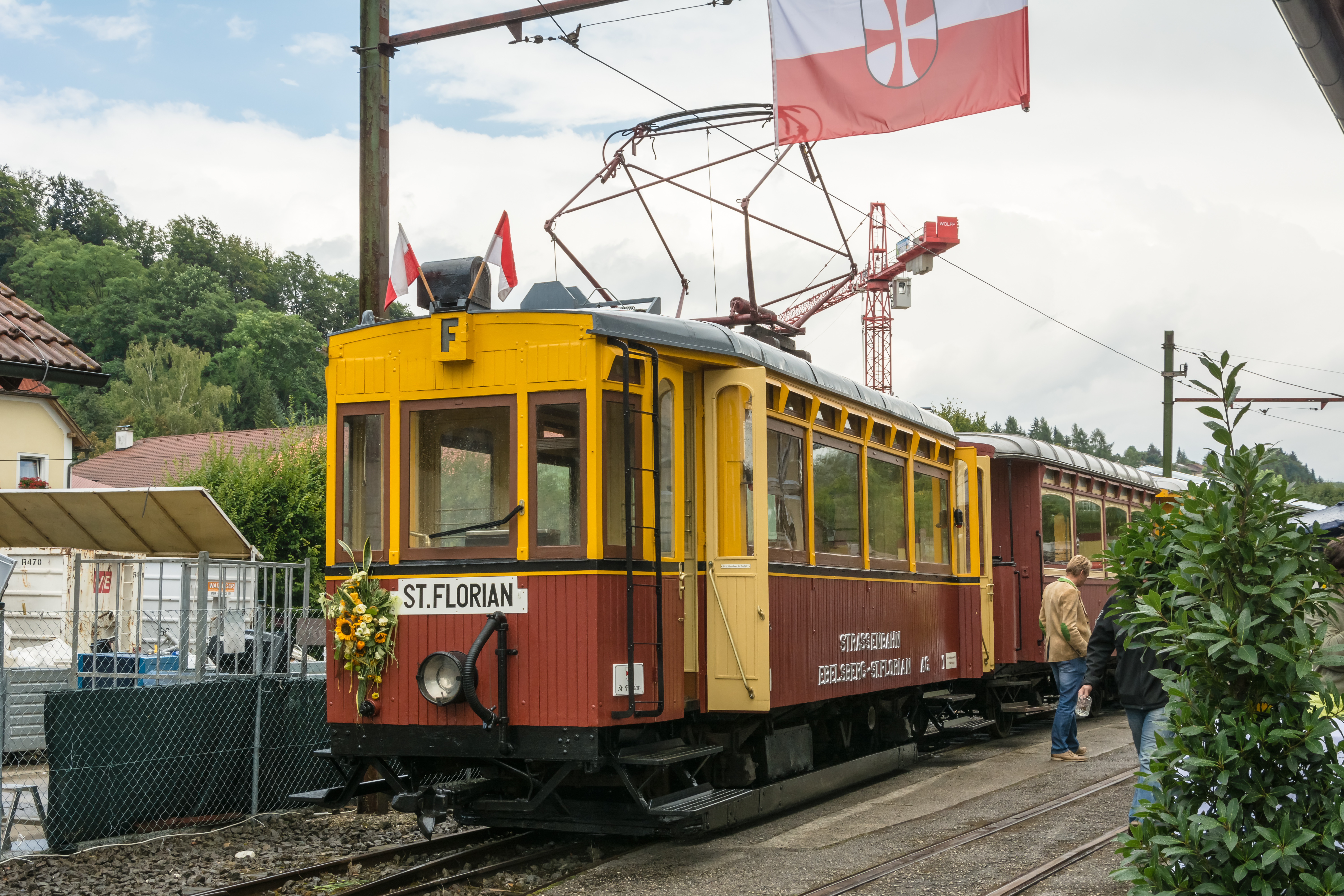 the Powercar EM1 of Florianerbahn was built in 1913 by the company "Grazer Waggonfabrik".